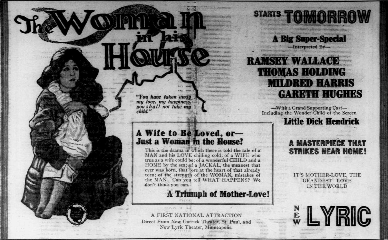 Newspaper advertisement for the American film The Woman in His House (1920) with Mildred Harris and Richard Headrick, on page 4 of the January 21, 1921 Duluth Herald.